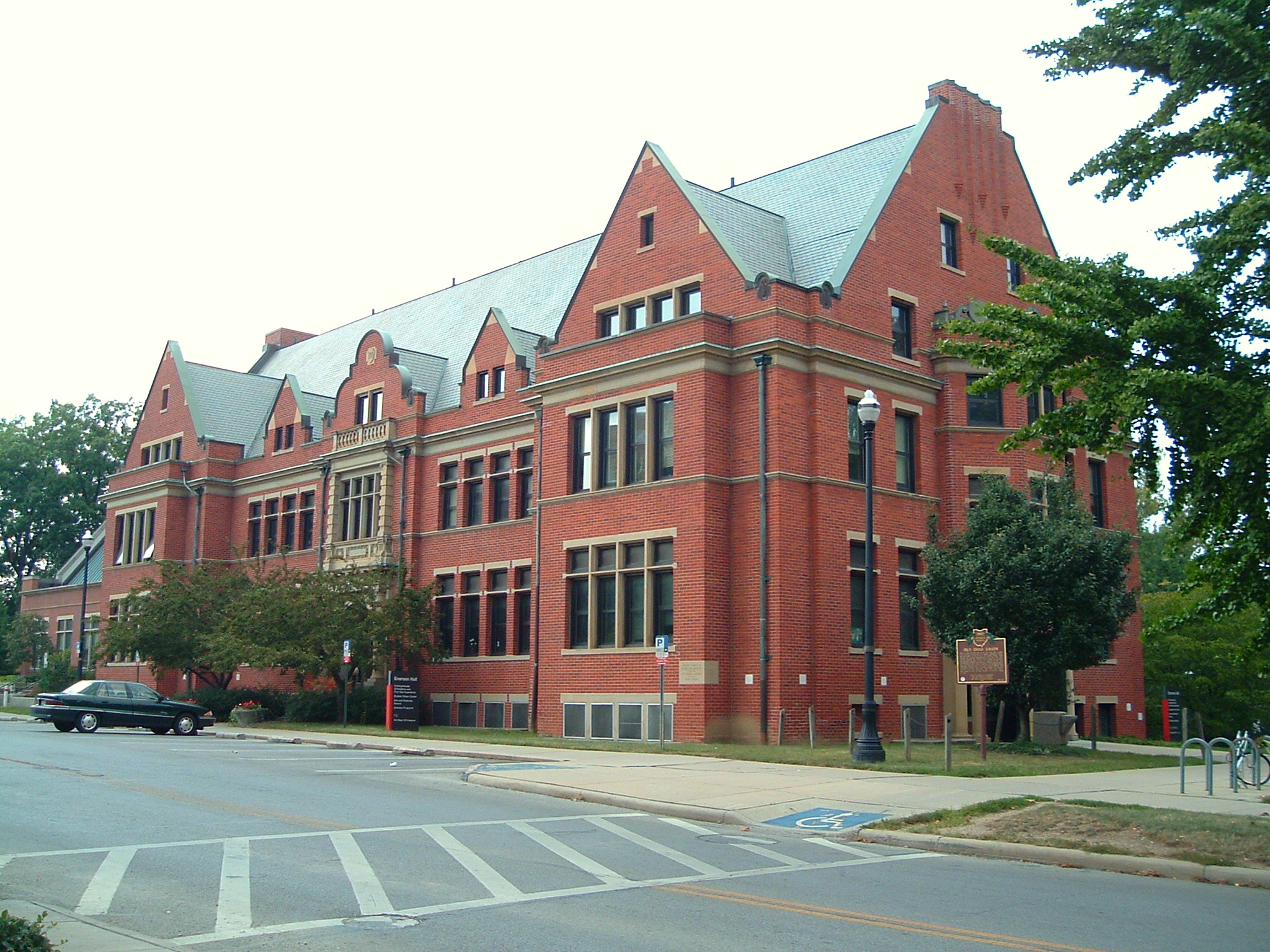 Enarson Hall (Old Ohio Union) at The Ohio State University. Self made photo.